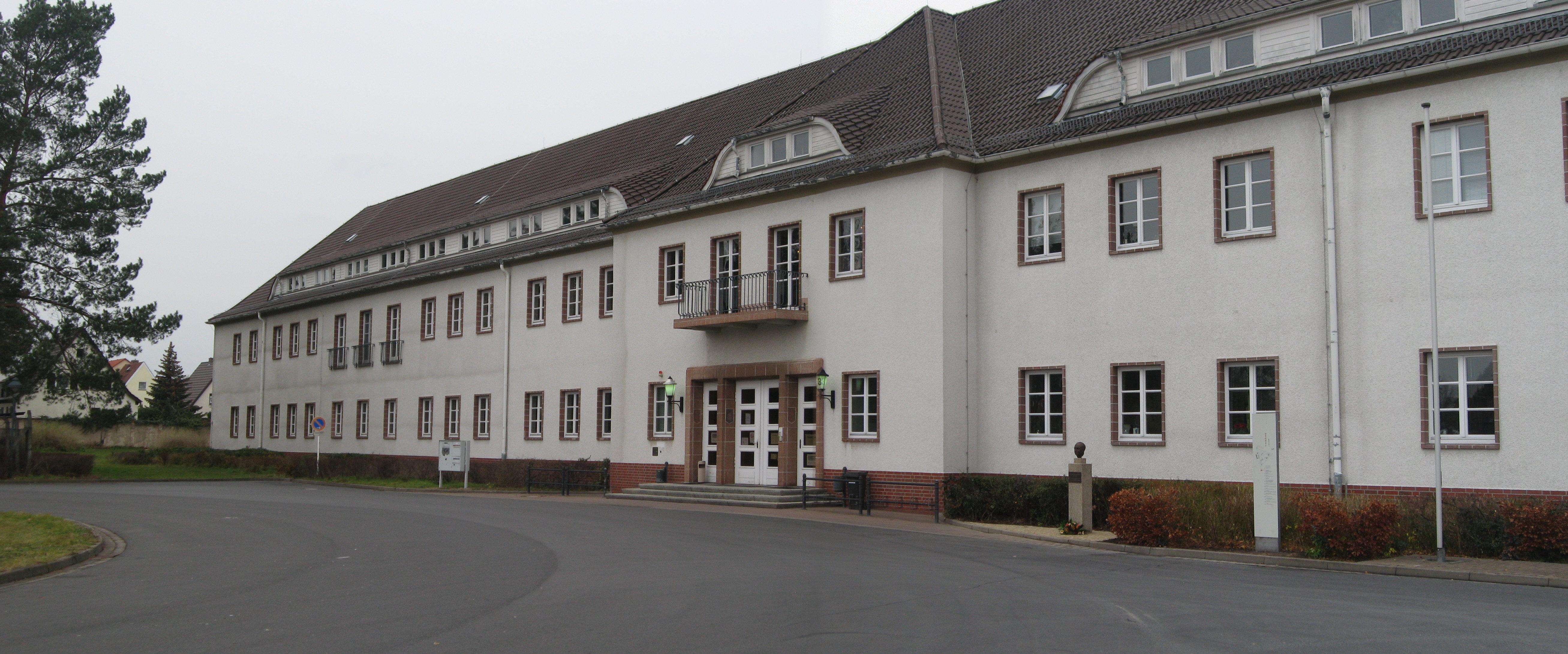 western part of the so-called T-building in Oranienburg; picture stiched from 2 single photos